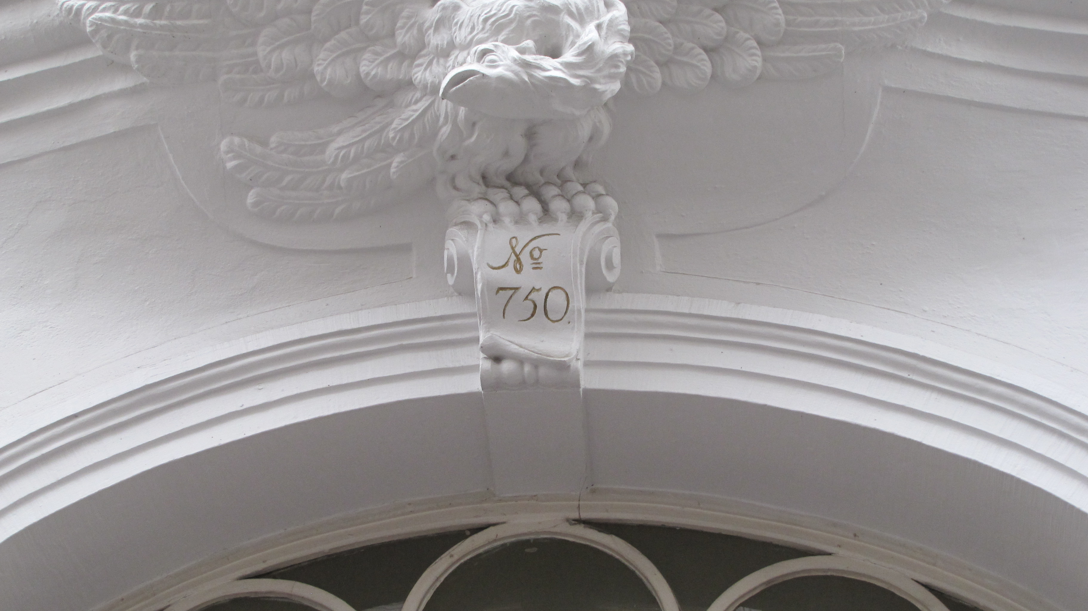 Historic House number at Königstr. 81, Lübeck